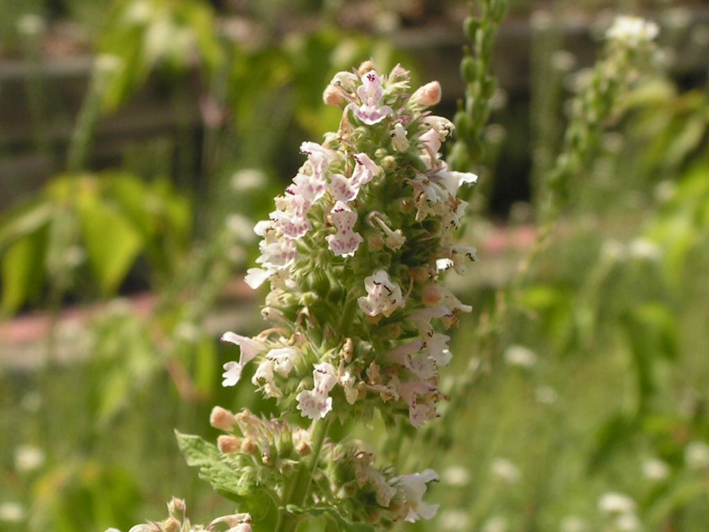 Catnip (Nepeta cataria), Ottawa, Ontario, Canada